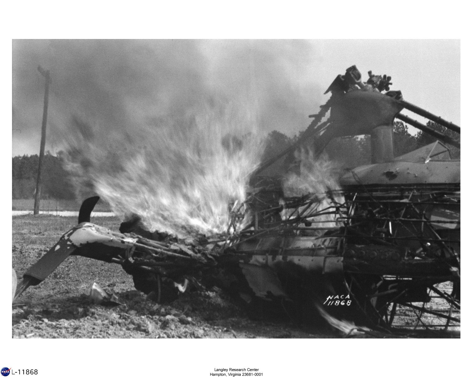 Pitcairn YG-2 (PA-33) crash. after rotor failure the crew performed the first successful bail-out from a rotary winged aircraft on 30 March 1936